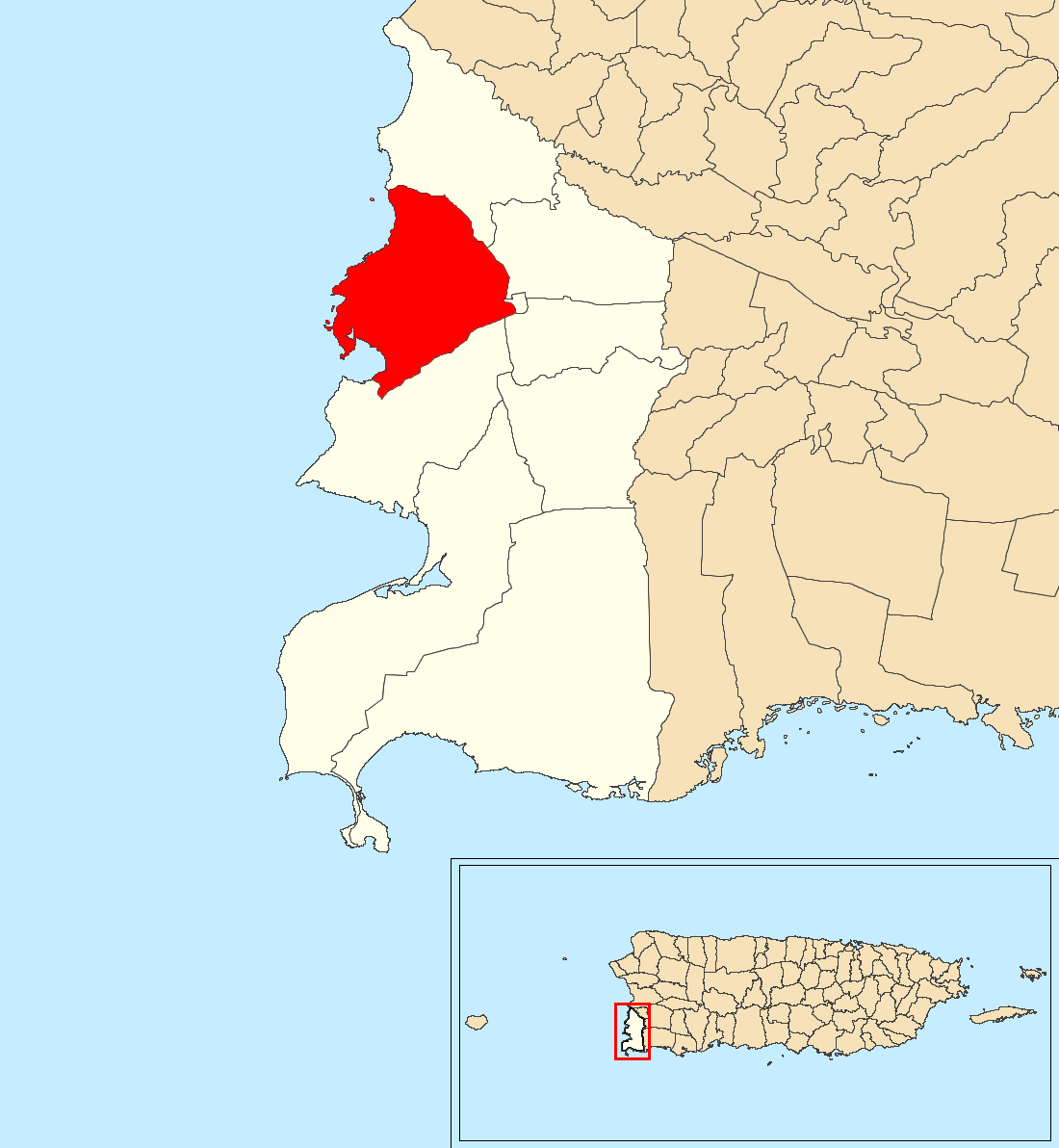 Miradero, Cabo Rojo, Puerto Rico locator map